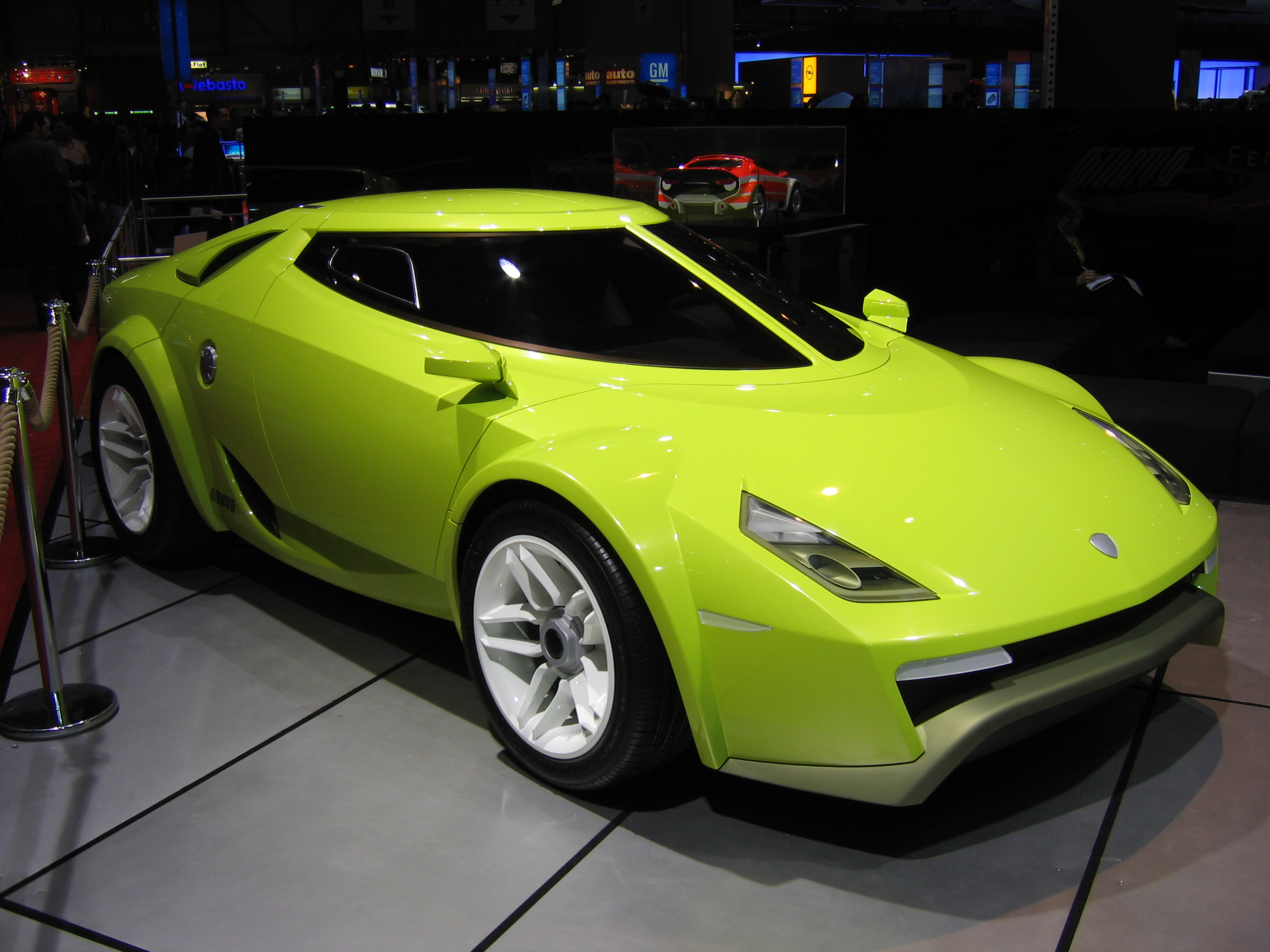 Geneva Motor Show 2005